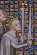 Richilda of Provence